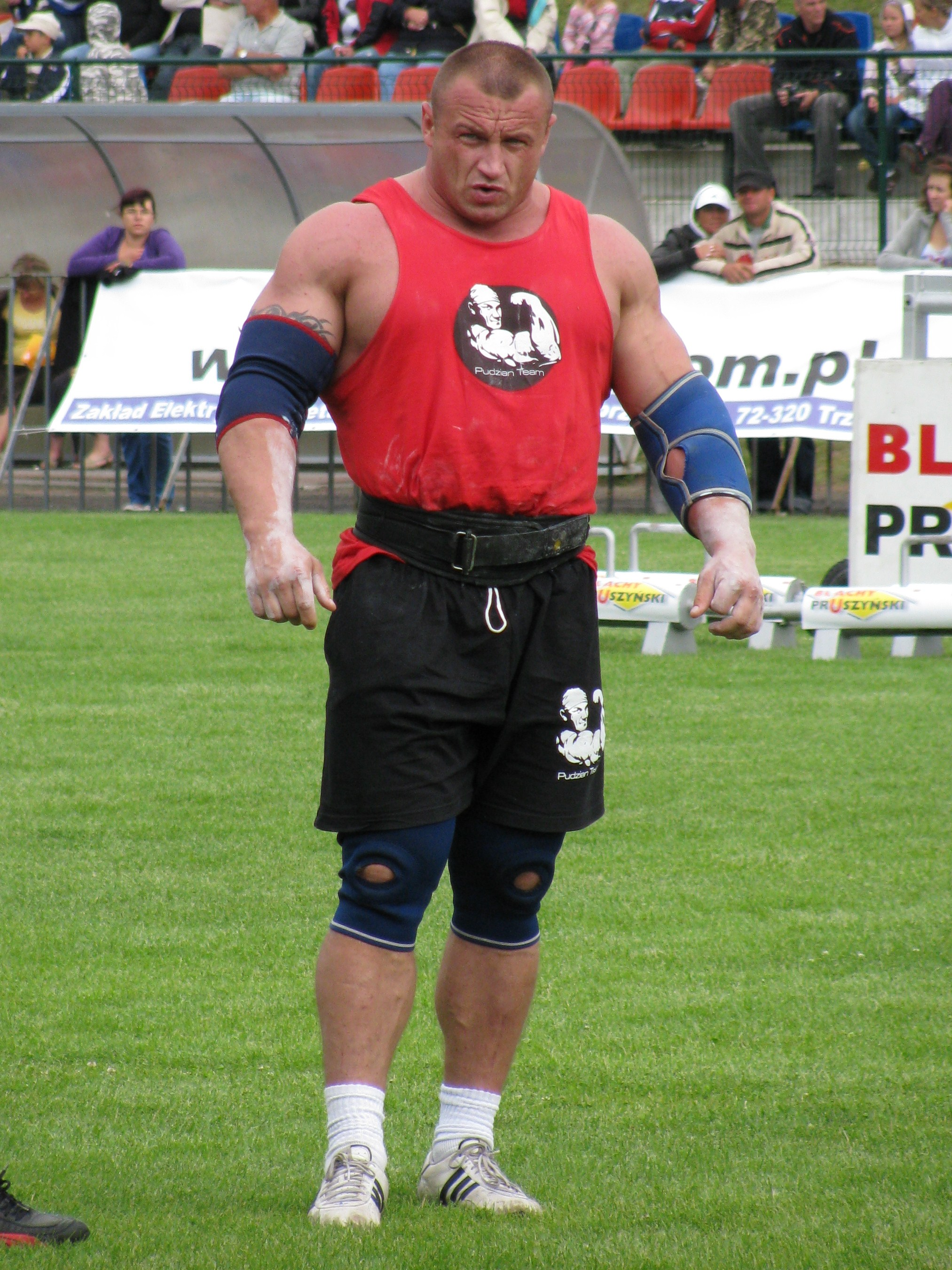 Mariusz Pudzianowski, called Pudzian - the Champion